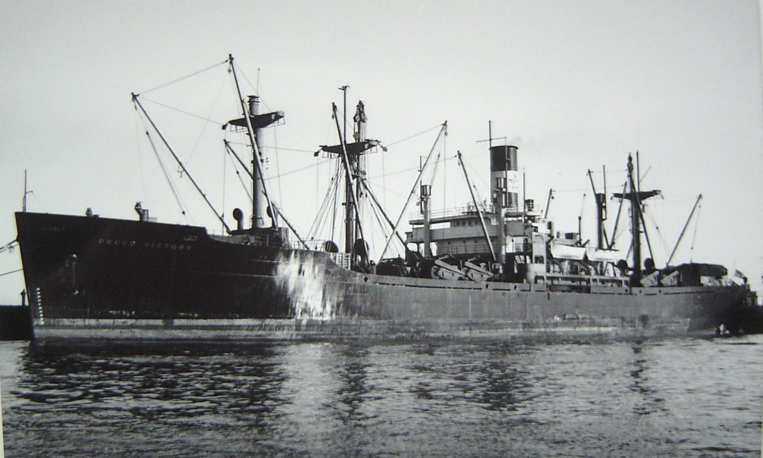 Ex-USS Provo Victory (AK-228) in Pope & Talbot colors. As Lloyd's Index of 1948 states Pope having been the charterer then (in the early Fifties it was American Foreign), this picture dates apparently from 1948.